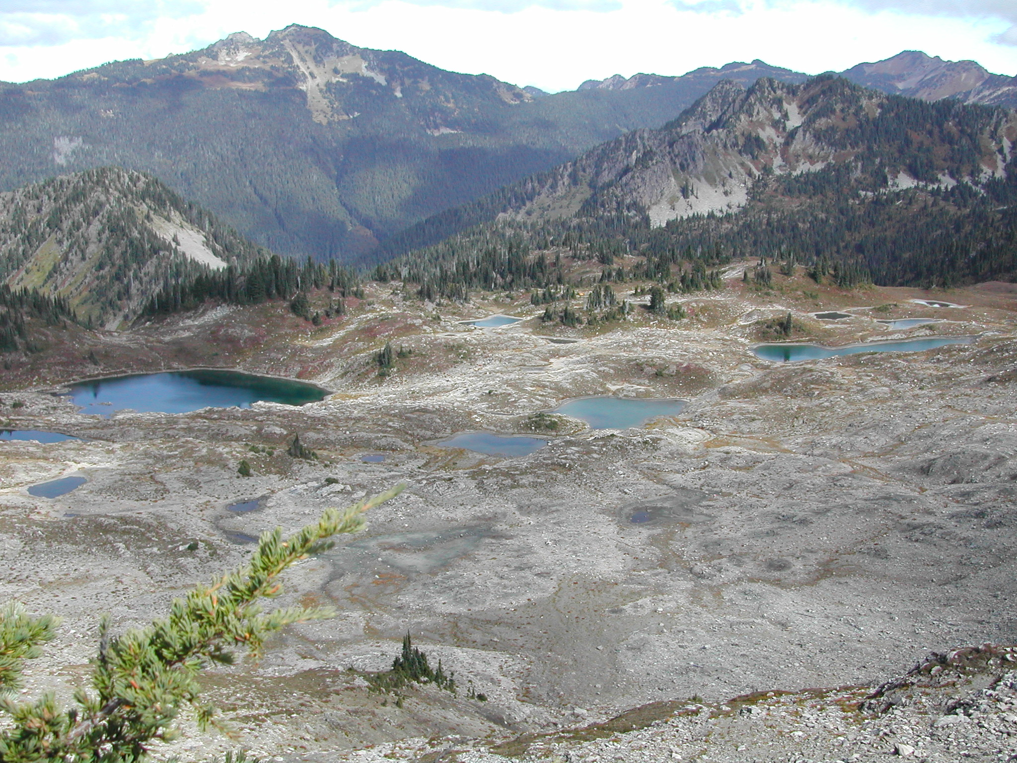 View into Seven Lakes Basin in Olympic National Park, Washington state, USA. Looking northwards.